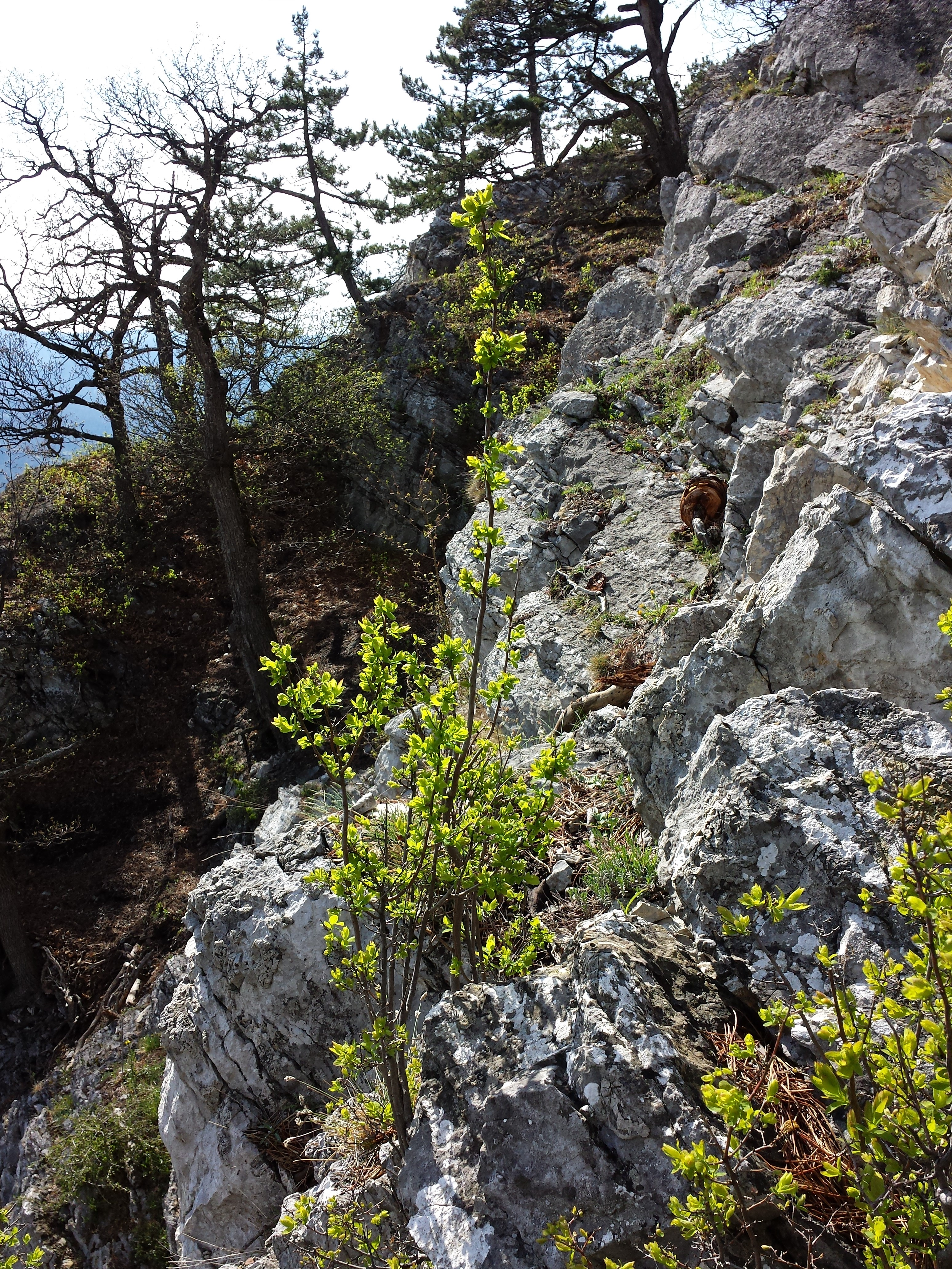 Habitus Taxonym: Spiraea media ss Fischer et al. EfÖLS 2008 ISBN 978-3-85474-187-9 (det. W. Willner 2015-04-18) Location: Gösing bei Ternitz, district Neunkirchen, Lower Austria - ca. 700 m a.s.l. Habitat: carbonate rock